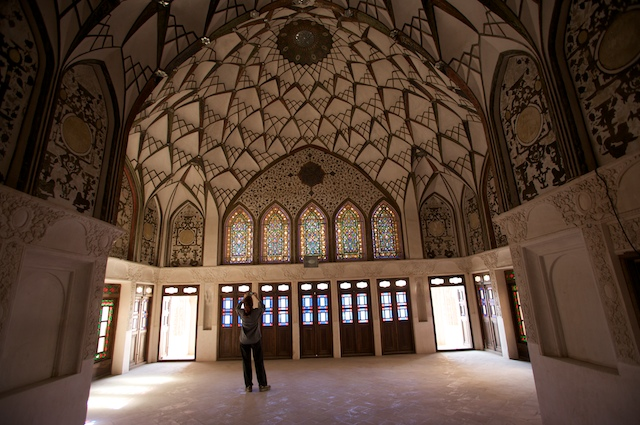 Tabatabei house, Kashan. The house of a wealthy 19th century carpet merchant.